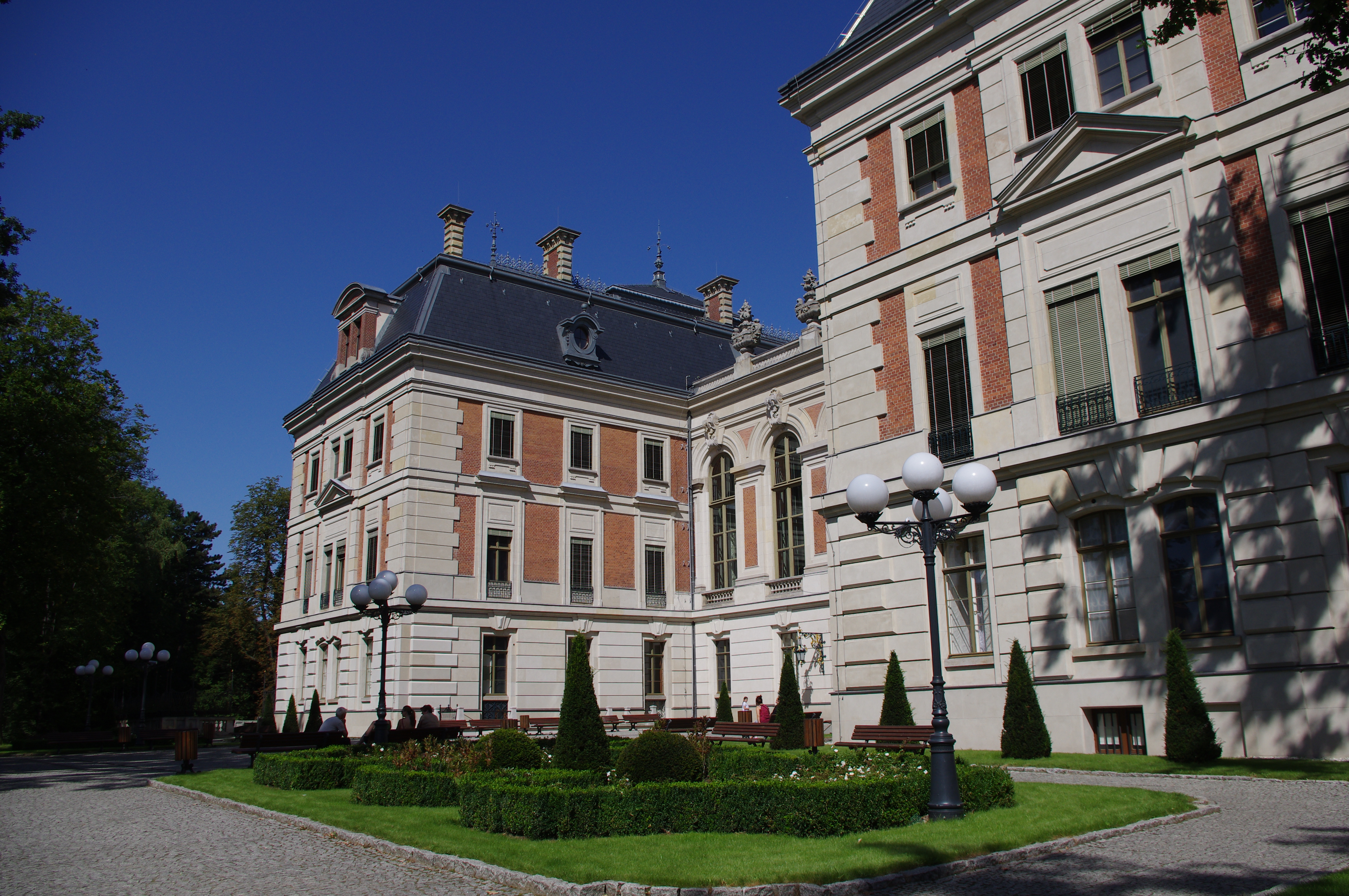 The south facade of Pszczyna Castle